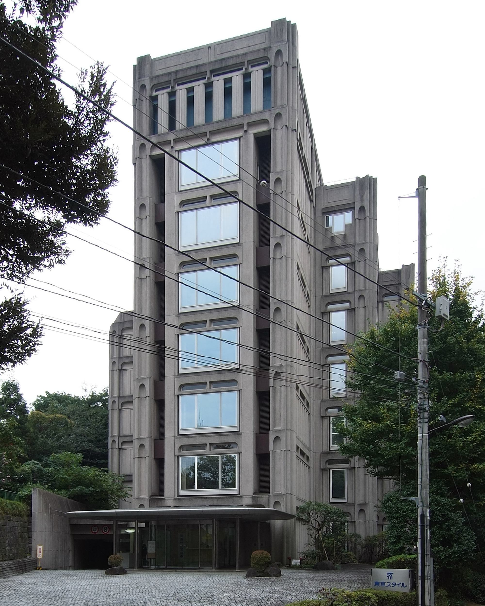 Kōjimachi Daibiru, at Kōjimachi Tokyo Japan, design by Togo Murano in 1976.